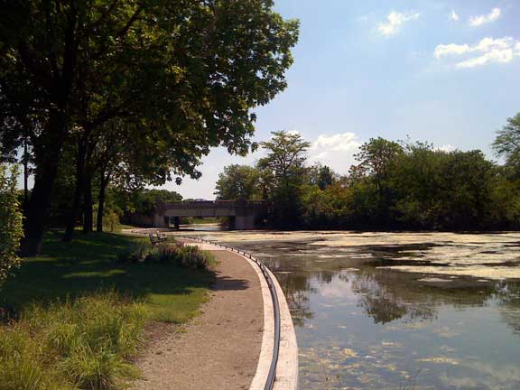 Marquette Park Lagoon, Chicago, Illinois